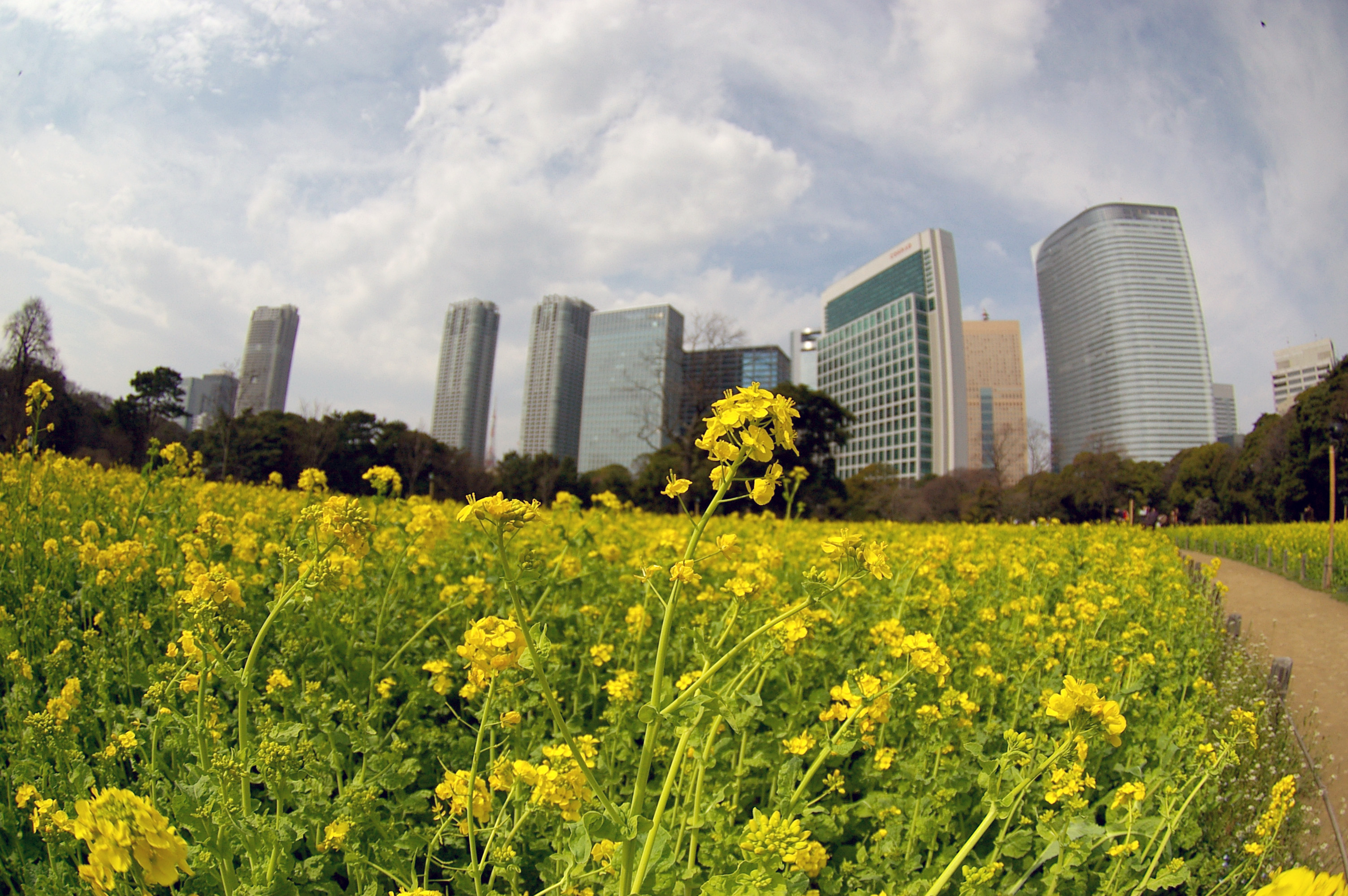 Photo by Yosemite. Rape blossoms and shiodome skyscrapers (in Tokyo).